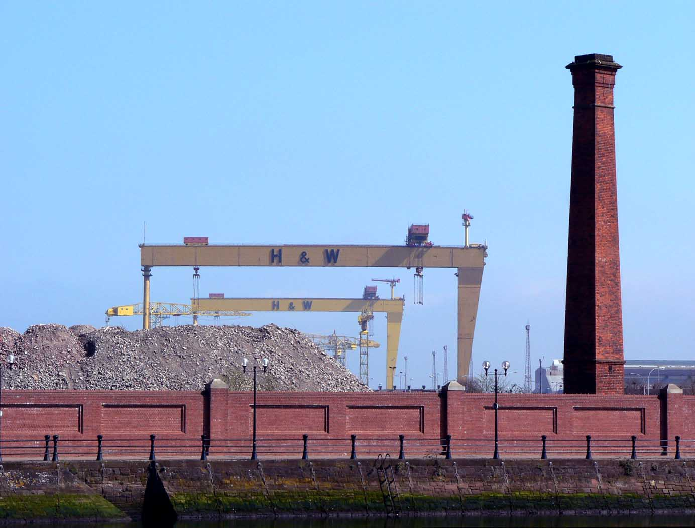 Samson and Goliath are twin shipbuilding gantry cranes situated at Queen's Island, Belfast, Northern Ireland.